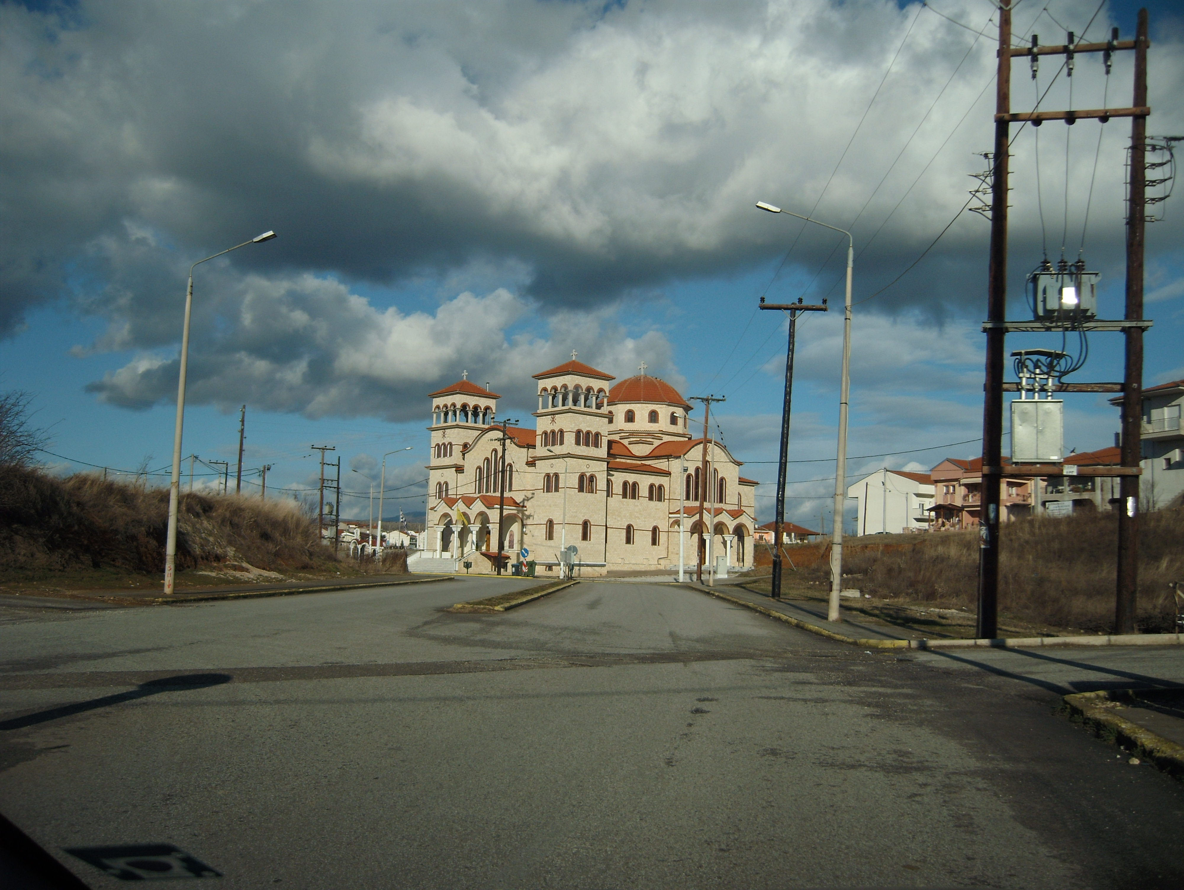 Hrupishta / Argos Orestiko